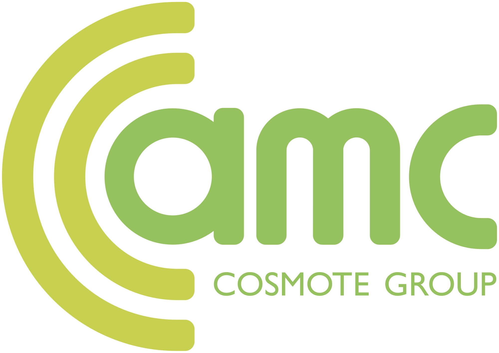 AMC-logo